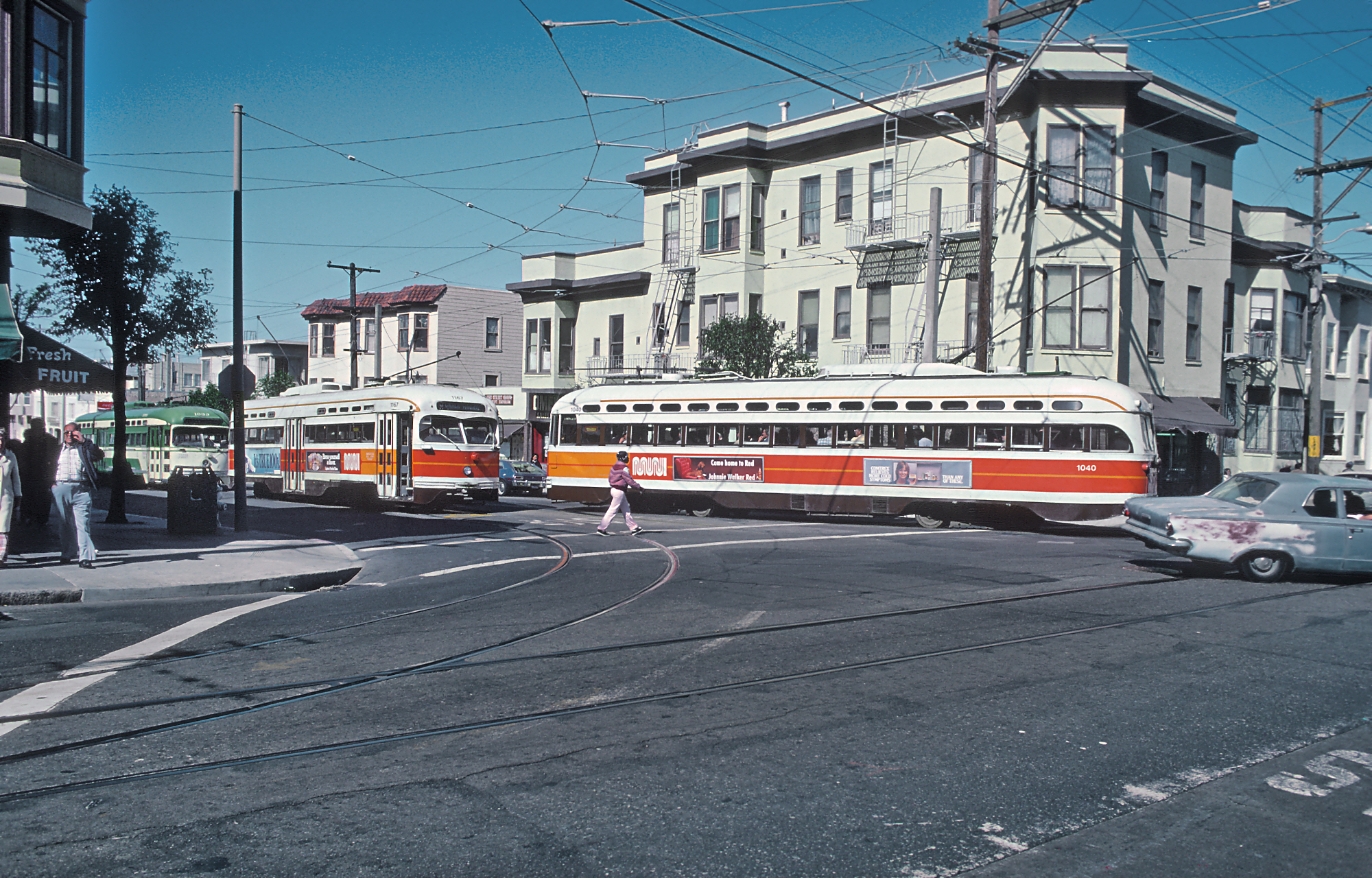 MUNI 1040 and 1167 at 30th and Church Streets in August 1981 This file comes from the Roger Puta collection, which passed to Mel Finzer. They were scanned and posted by Marty Bernard, are in the Public Domain. Attribution to "Roger Puta" is not required for a PD image, but should be done as a matter of courtesy to a major Commons contributor. Mel Finzer, the heirs of this work's copyright holder (usually the creator) have released it into the public domain. This applies worldwide. In some countries this may not be legally possible; if so: The heirs of the creator grant anyone the right to use this work for any purpose, without any conditions, unless such conditions are required by law. See This work is free and may be used by anyone for any purpose. If you wish to use this content, you do not need to request permission as long as you follow any licensing requirements mentioned on this page.